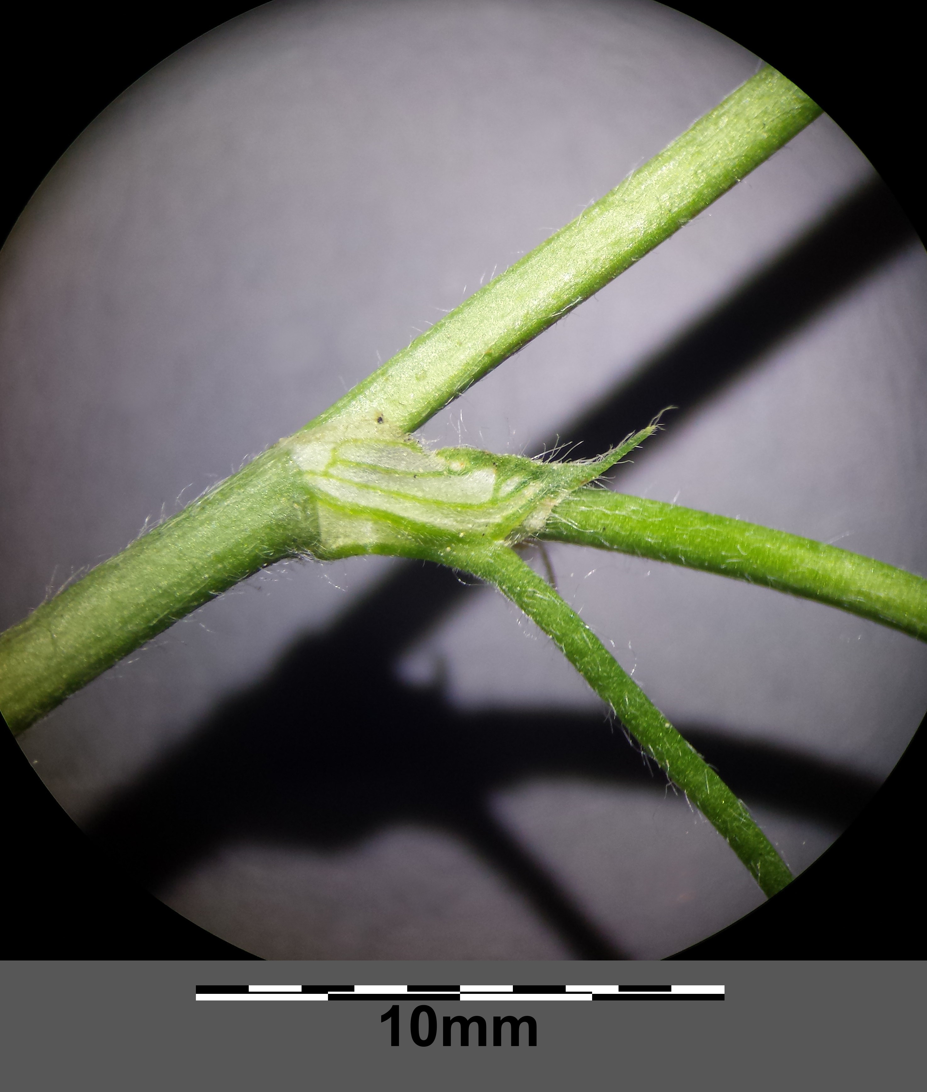 Stem with stipules Taxonym: Trifolium striatum ss Fischer et al. EfÖLS 2008 ISBN 978-3-85474-187-9 Location: Korneuburg rail station, district Korneuburg, Lower Austria - ca. 170 m a.s.l. Habitat: ruderal meadows